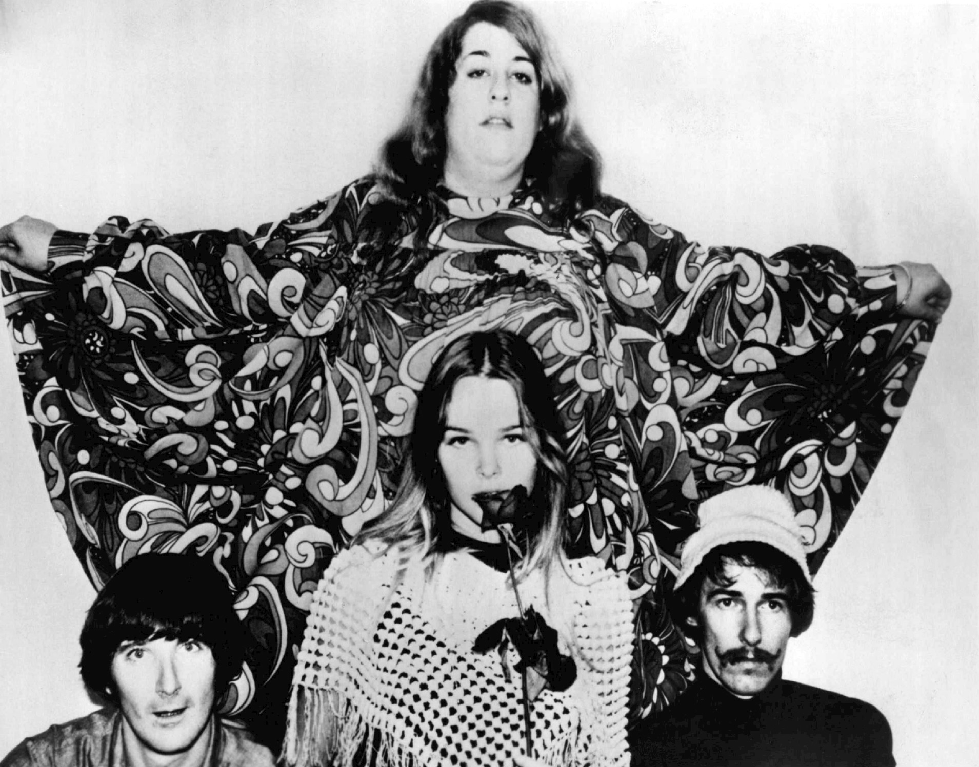 Photo of the musical group The Mamas and the Papas from the ABC television program, The Songmakers. Cass Elliot stands at back, Denny Doherty. Michelle Phillips and John Phillips are at front.